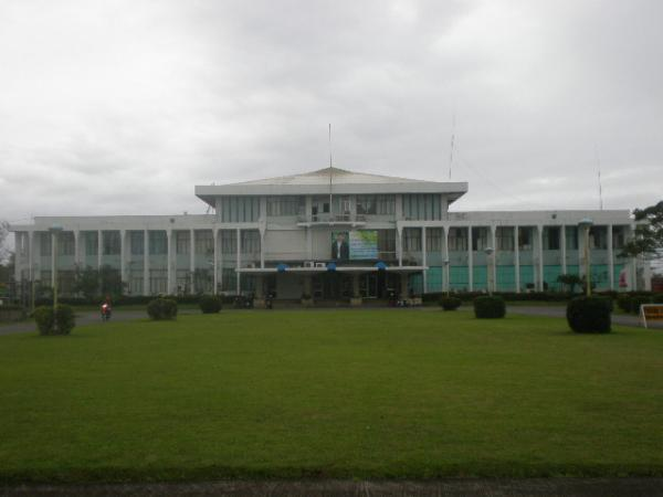 cam sur capitol